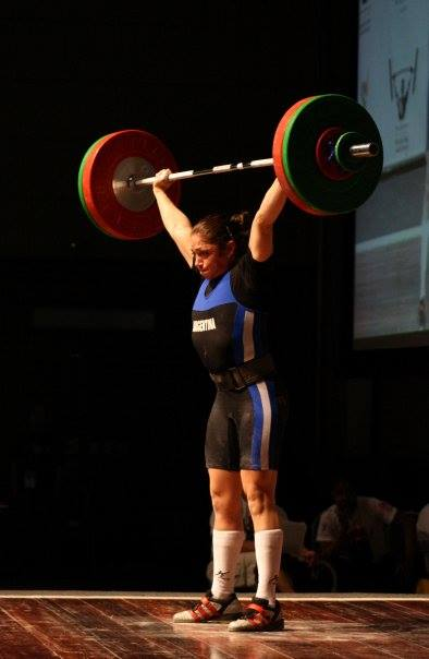 Weightlifting